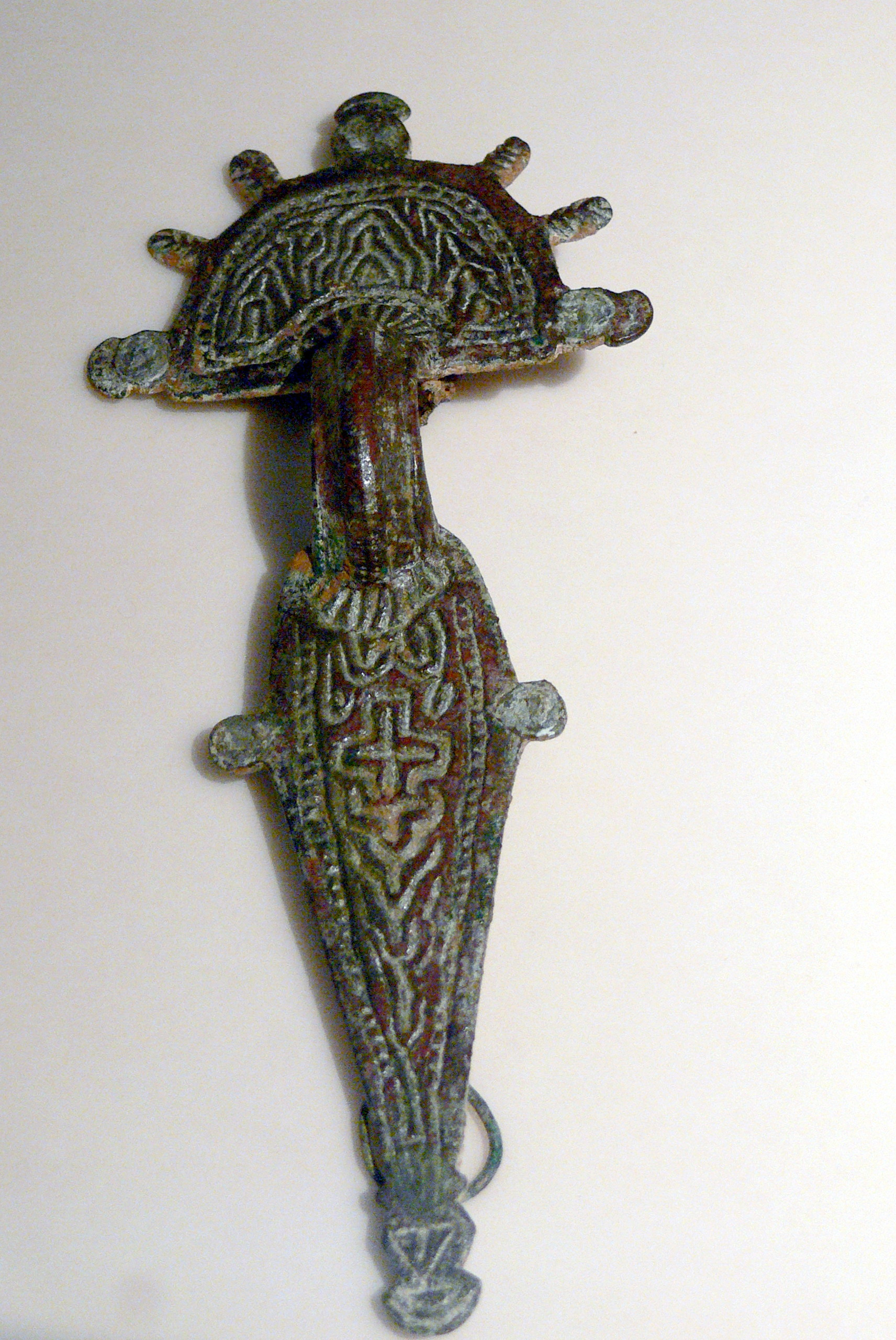 German National Museum (Nuremberg, Germany). Visigothic bow fibula (6th century), from Castiltierra, Spain.